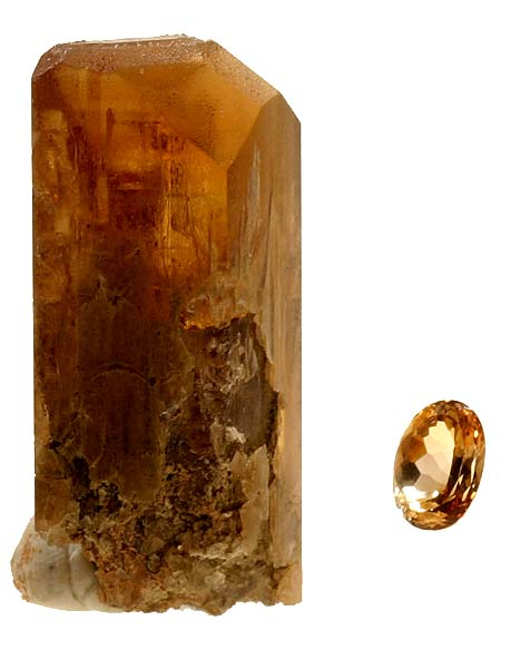 Danburite Locality: Bor Pit (Boron Pit; Bor Quarry), Dal'negorsk B deposit, Dal'negorsk (Dalnegorsk; Tetyukhe; Tjetjuche; Tetjuche), Primorskiy Kray, Far-Eastern Region, Russia (Locality at ) Danburite of this quality is rare from Dalnegorsk, even after all these years of specimen production. I am told they are older material. This crystal stands as one of the best I have seen, with the unique dark sherry color tha tmakes danburite from this locality unique to my knowledge anyhow. Here we have a stunning pair: a large, deep amber-colored danburite crysatl showing perfect and unusually equant stereotypical crystal form, with perfect symmetry and a super-gemmy top that contains tons of gem rough (ouch!); along with a beautiful danburite gemstone cut from this same material from Dalnegorsk. You can display them side-by-side in your case as perfect rough and cut pair. The danburite is worth the price - the stone is basically a throw-in, to my mind (though it HAS to be worth a coupla hundred on its own, I'd think?!) 5.6 x 2.8 x 1.9 cm Cut Gem, 5.48 carats, 1.3 x 1 cm